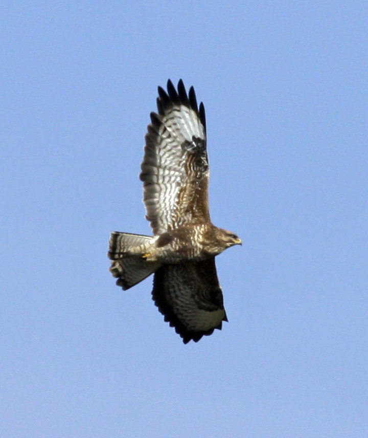 Common Buzzard (Buteo buteo) Whiteworks, Dartmoor, Devon, UK